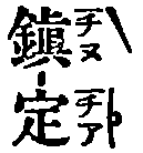 Scan of two characters (鎮定 Tìn-Tiāⁿ) from the 日臺大辭典 (Nittai daijiten; Japanese-Taiwanese Dictionary), with Taiwanese kana as ruby characters on the right-hand side of the main Chinese characters.